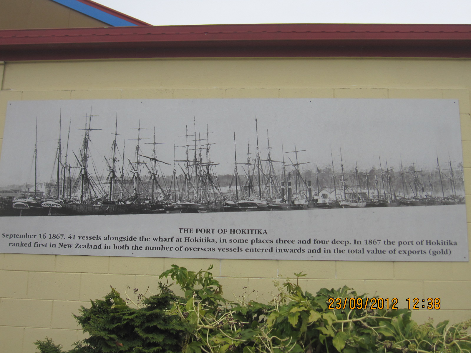 41 vessels at Port of Hokitika